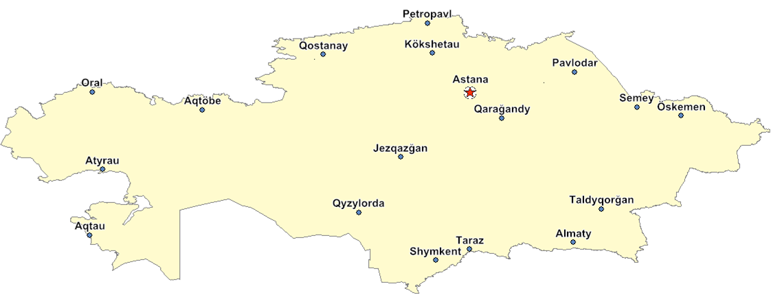 Kazakshtan map, Qazaqstan kartasy, Қазақстан картасы, Карта Казахстана, Kasachstan Karte, Kazakistan haritasi